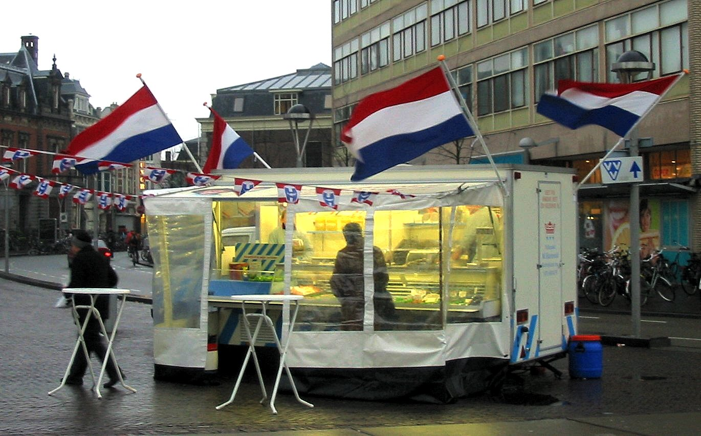 Sale of Herring, Leiden, The Netherlands, january 2006